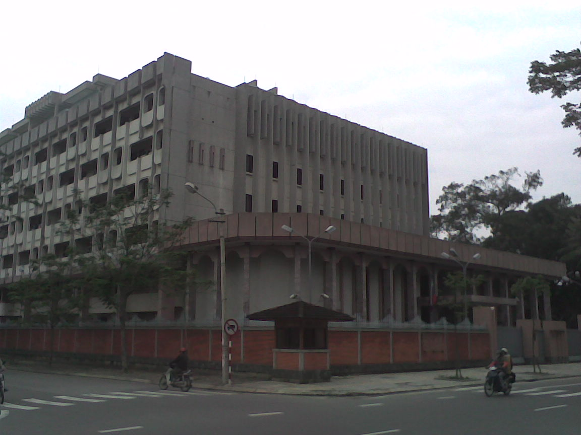 Consulate of the Russian Federation in Danang, Vietnam